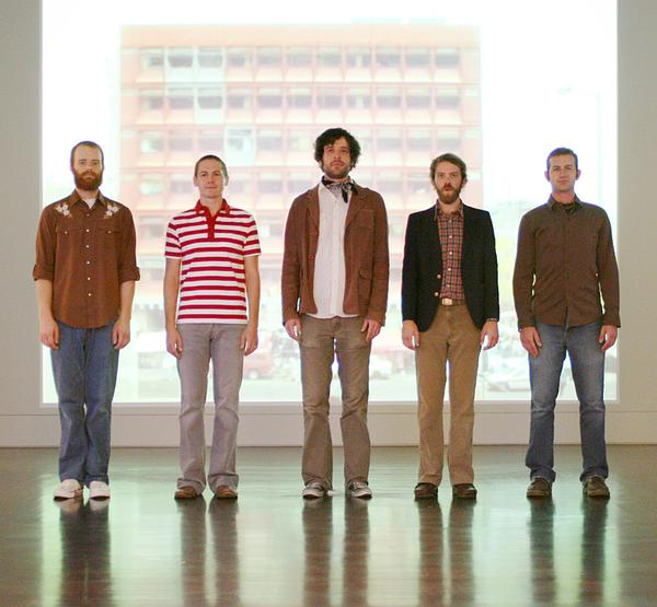 Museum Pic